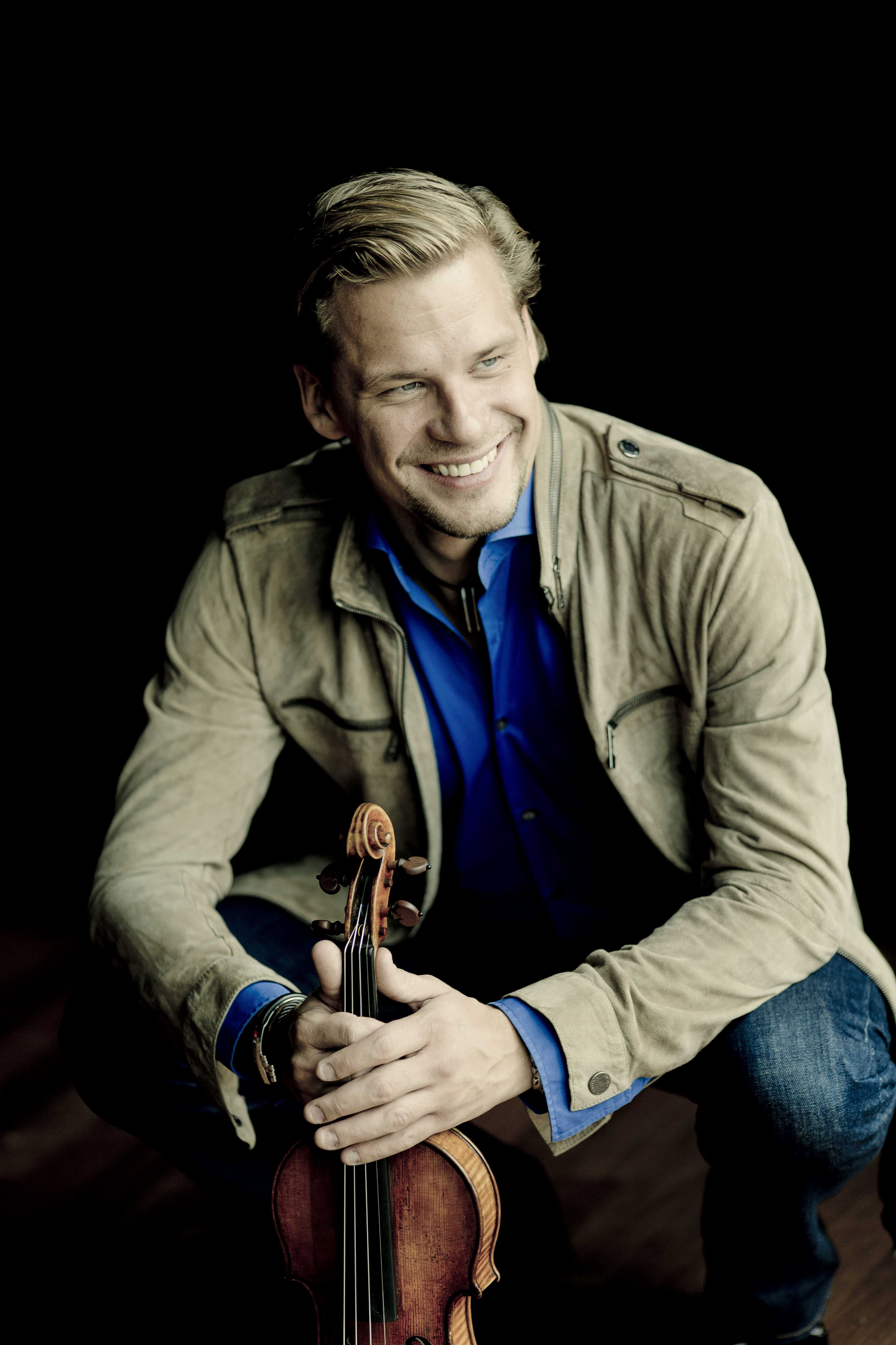 Violinist Kirill Troussov with the violin "Brodsky" made by Antonio Stradivari in 1702